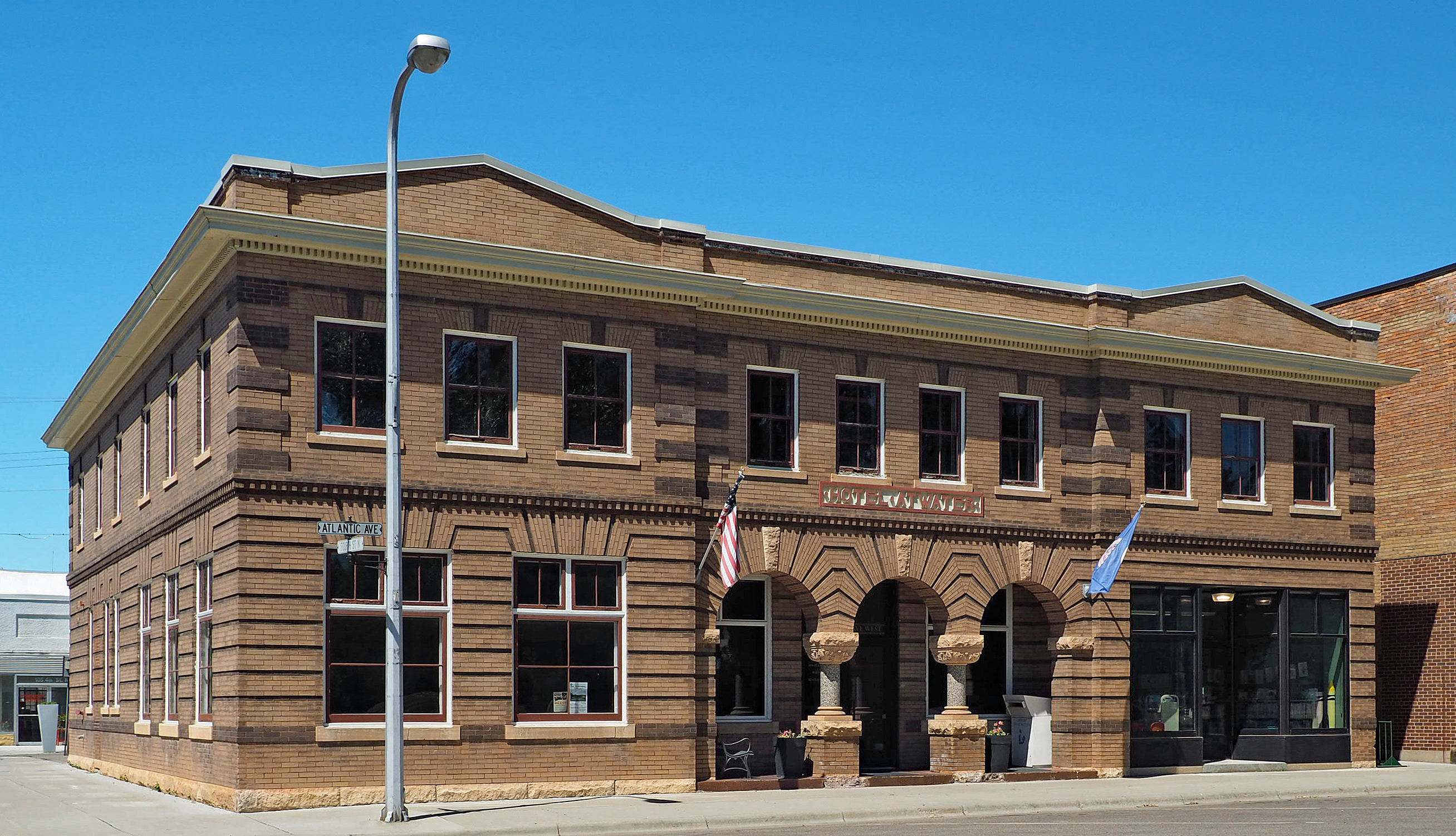 Hotel Atwater (now home to the Atwater city offices, police department, and public library), 322 Atlantic Ave, Atwater, Minnesota, USA. Viewed from the south-southwest.